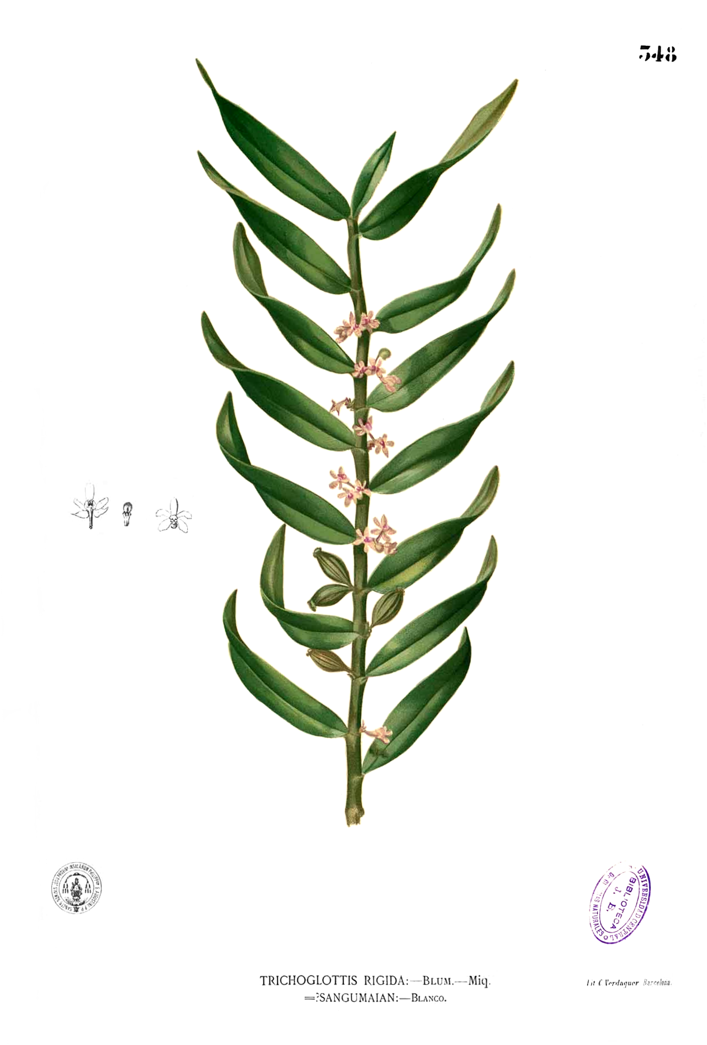 Trichoglottis rigida - Plate from book